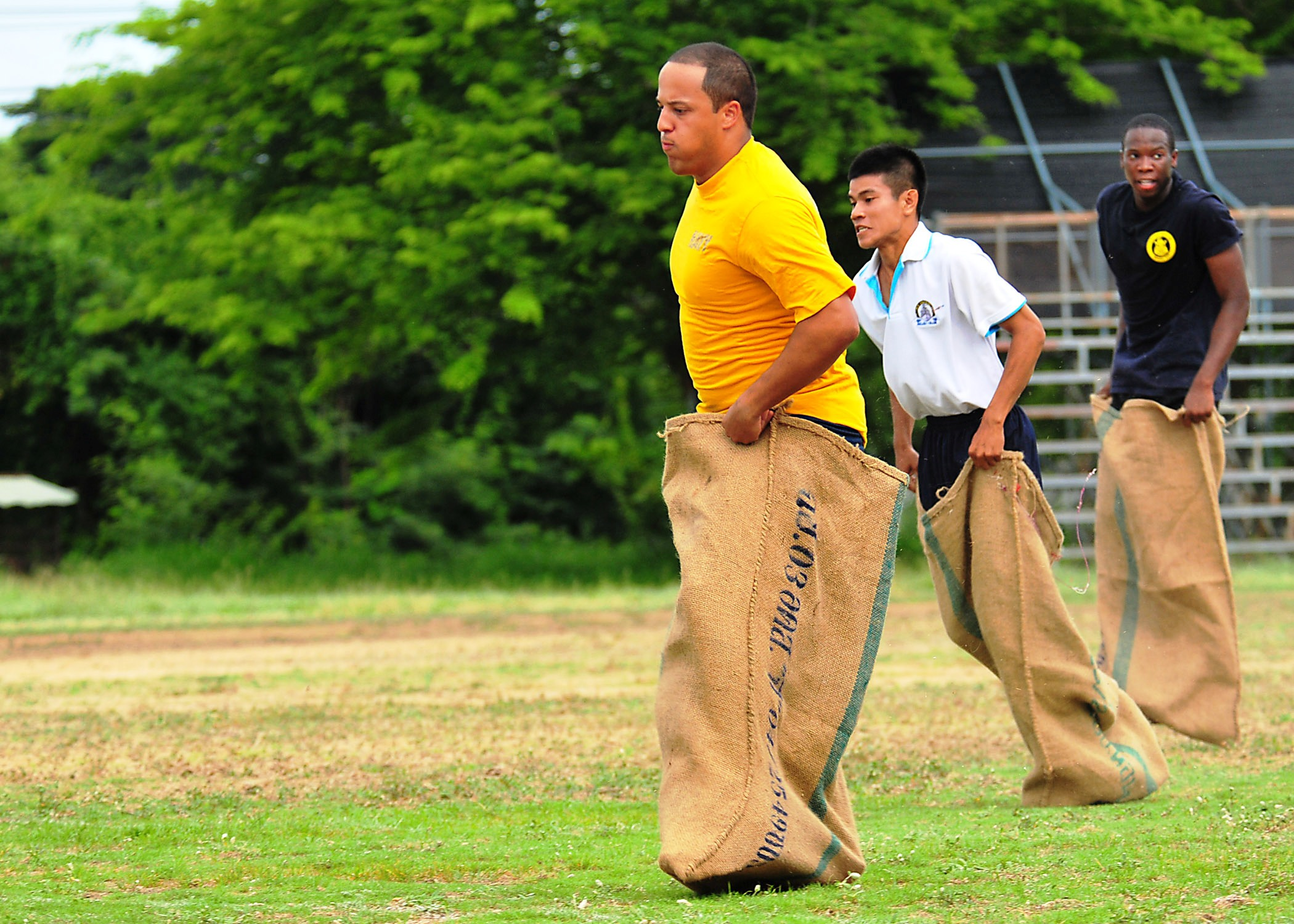 U.S. Coast Guardsmen and U.S. Navy Sailors compete with Royal Thai Navy sailors in a potato sack race during a sports day and barbeque.